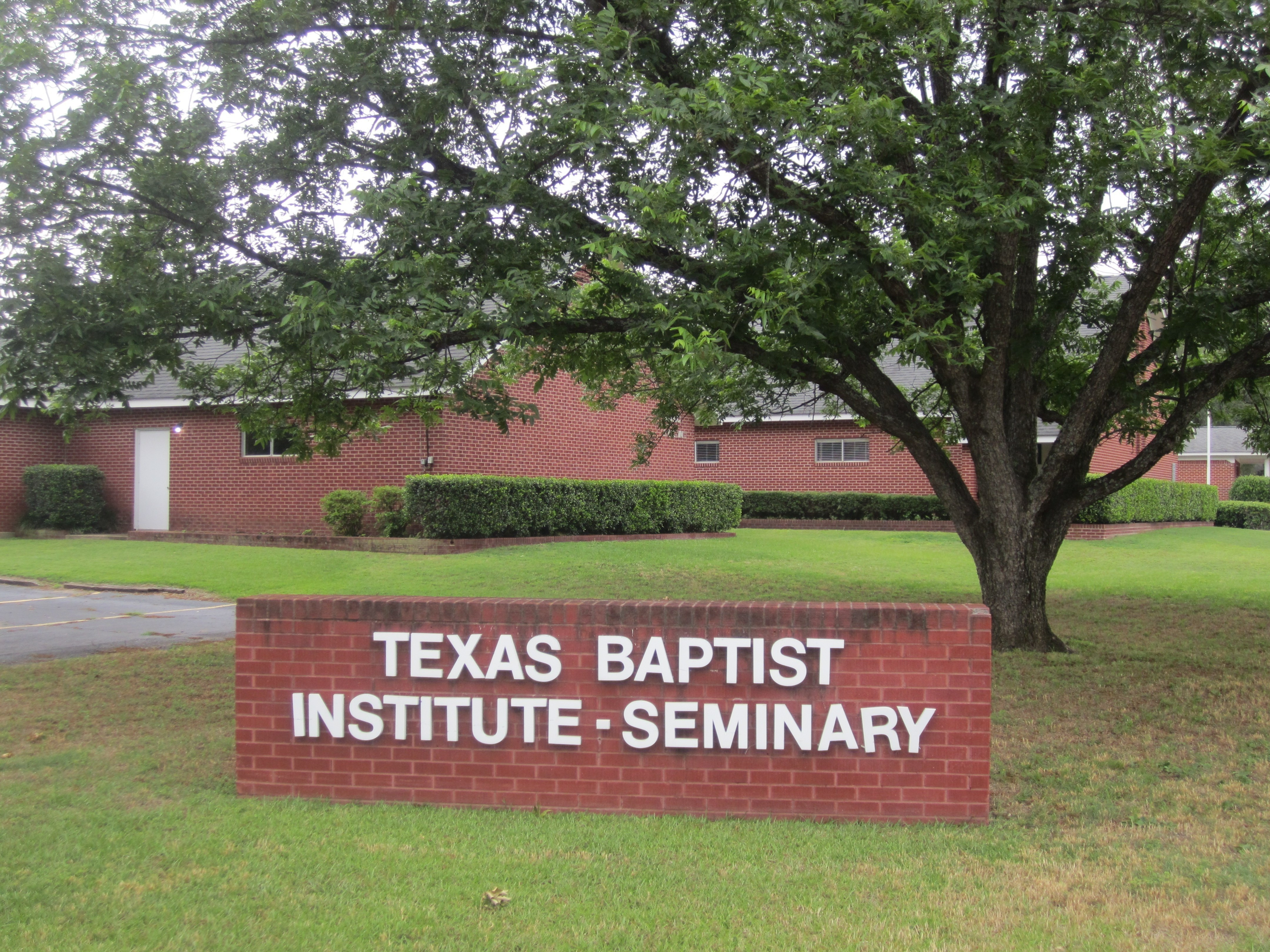 I took photo with Canon camera in Henderson, TX.